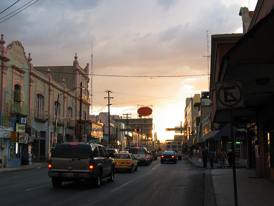 Ciudad Juárez at dusk looking west toward Misión de Nuestra Señora de Guadalupe.